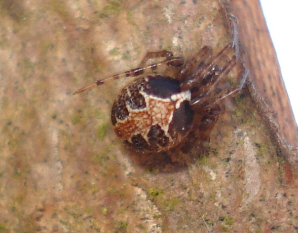 Theridion pictum